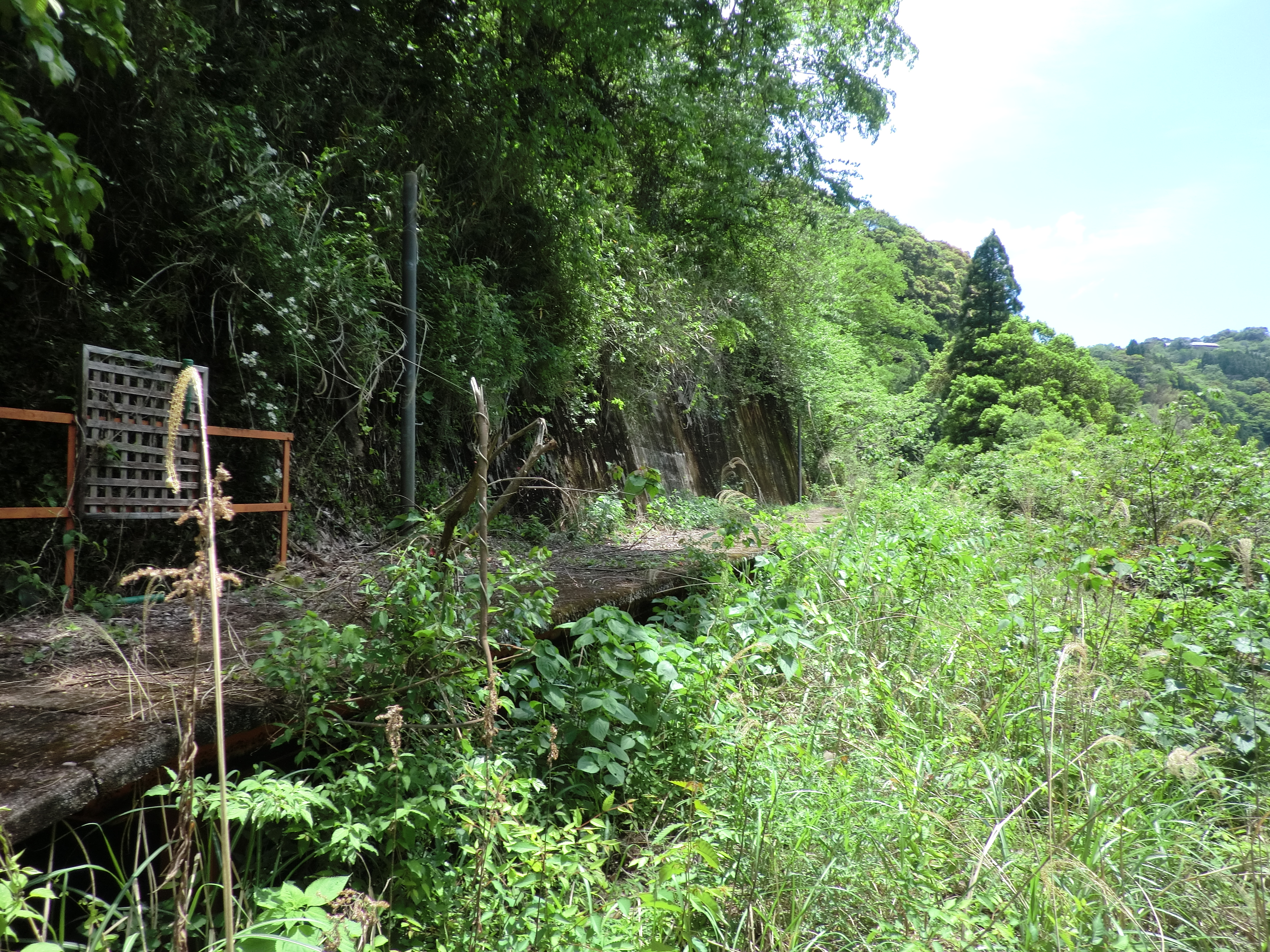 Ruin of Kagemachi Station platform